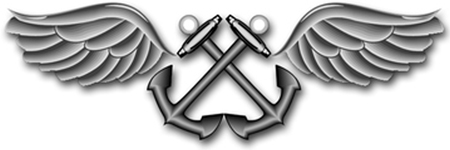 US Navy Aviation Boatwain's Mate (AB). Crossed winged anchors, crowns down.